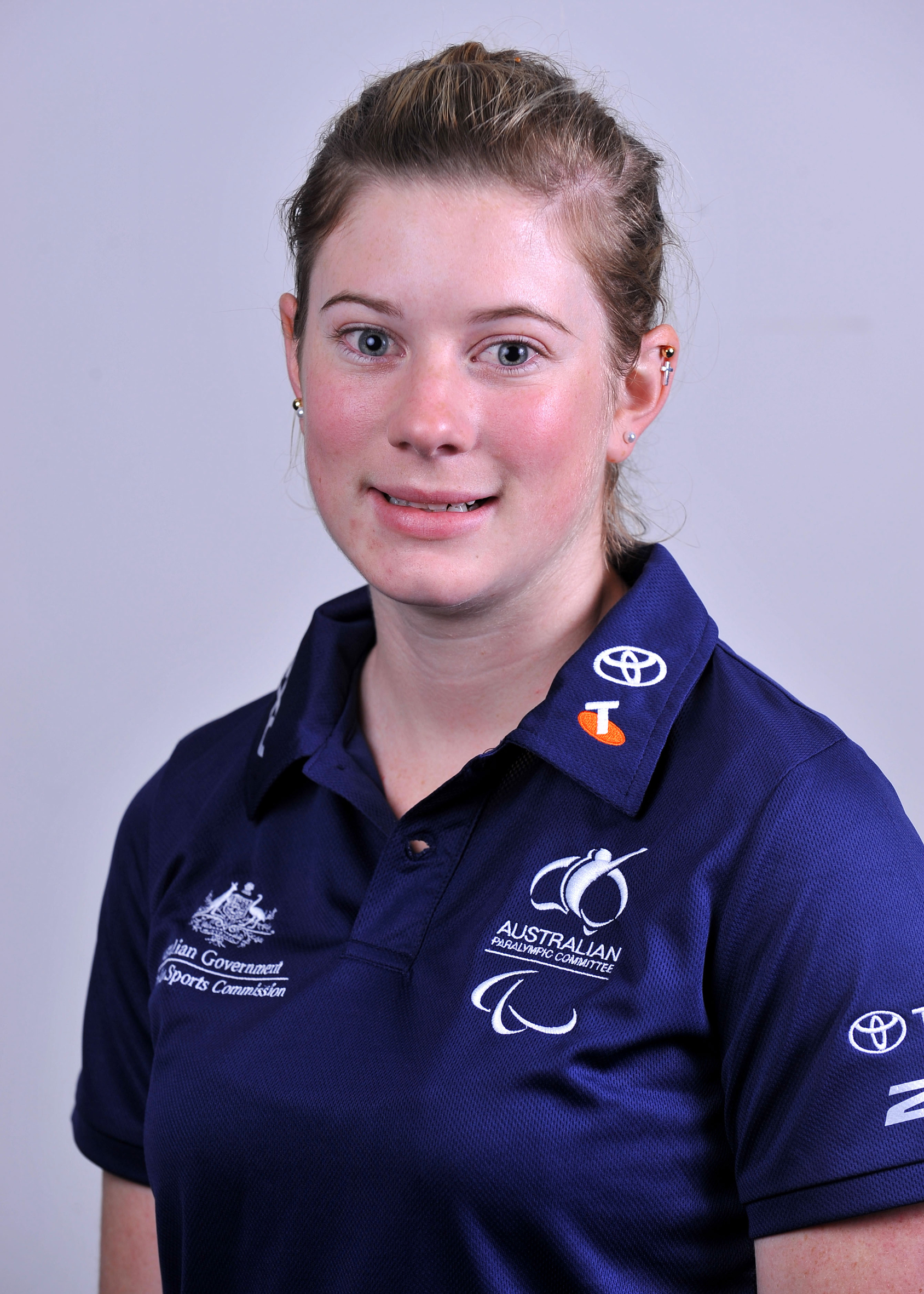 Portrait of Australian goalball player Tyan Taylor, 2012 Australian Paralympic (shadow) Team athlete